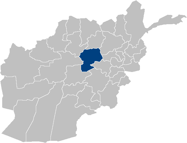 Location map for Bamyan Province in Afghanistan. Original map source: Image:Afghanistan_provinces_blank.png